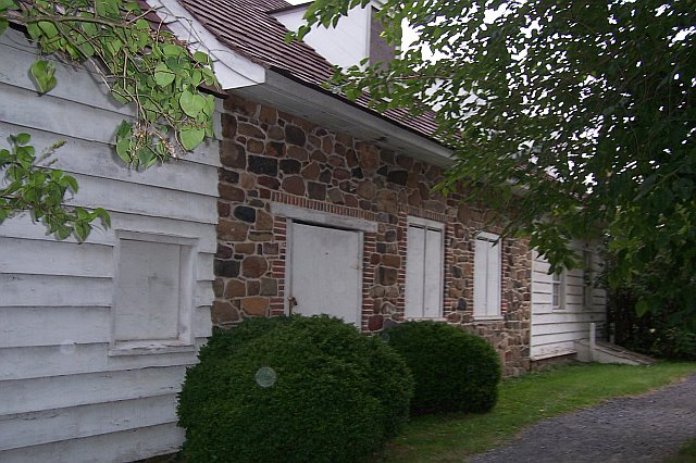 nathaniel britton cottage, staten island